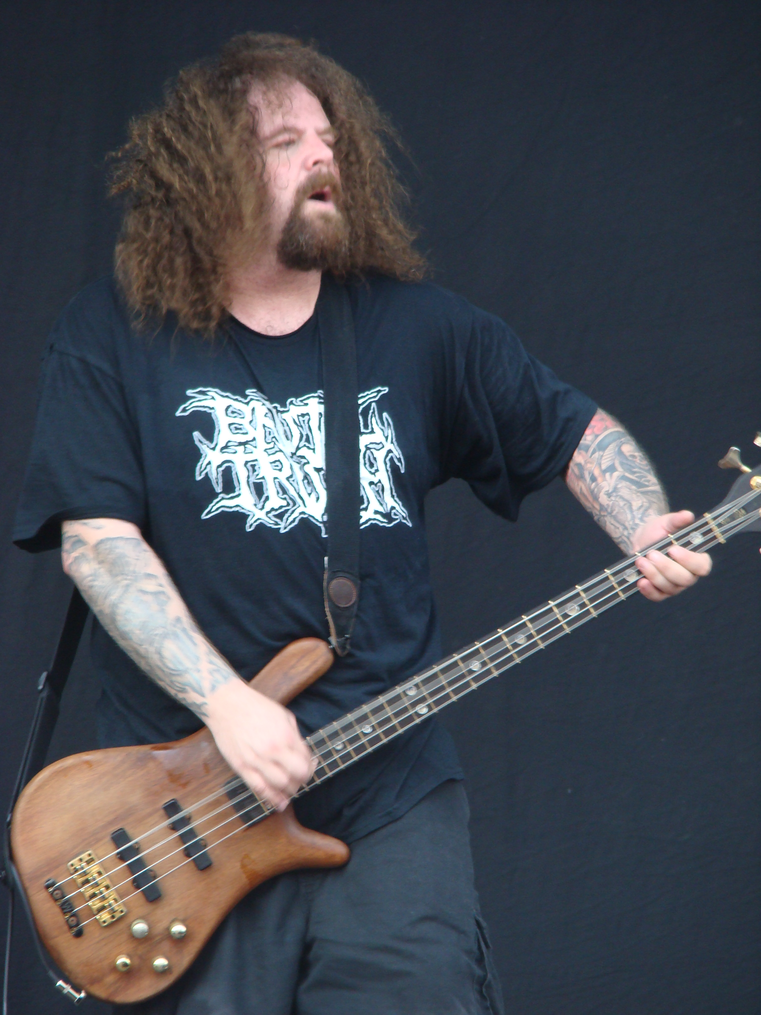 Shane Embury, bajista de Napalm Death.